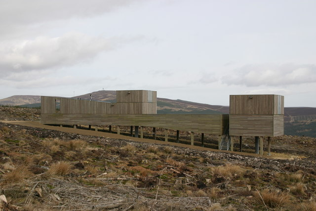 Kielder Observatory The Kielder Observatory was designed by Charles Barclay Architects and officially opened 25 April 2008 by Sir Arnold Wolfendale, the Astronomer Royal. Standing at an altitude of 1,214 feet the site was selected as it is deemed to be one of the darkest locations in England. The facilities, which include 14" and 20" telescopes, are powered by wind and solar energy.